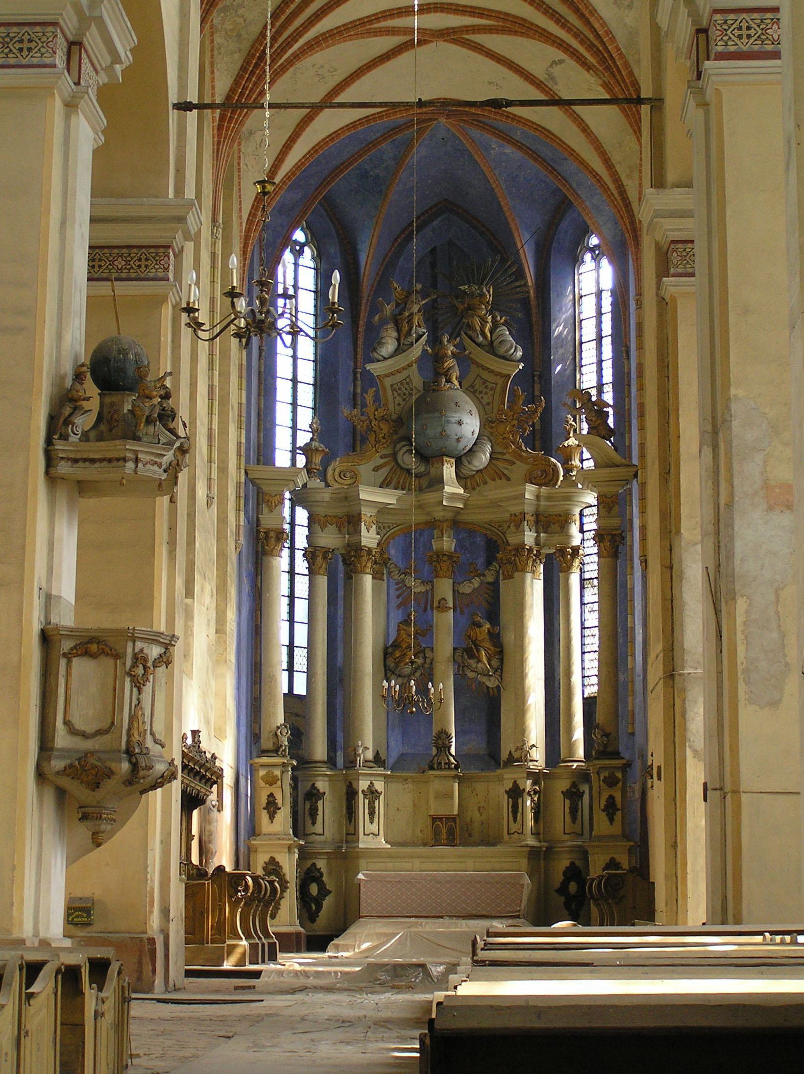 Chełmno, Church of SS. Peter and Paul, former Dominicans